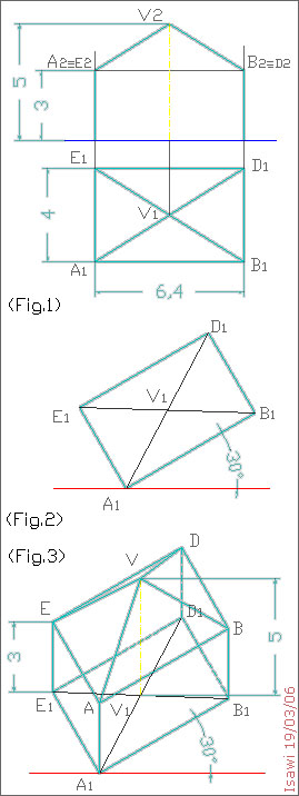 an practice example of cavalier military axonometry